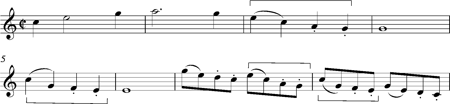 Beethoven, Leonore No. 3 overture, bars 69–76.